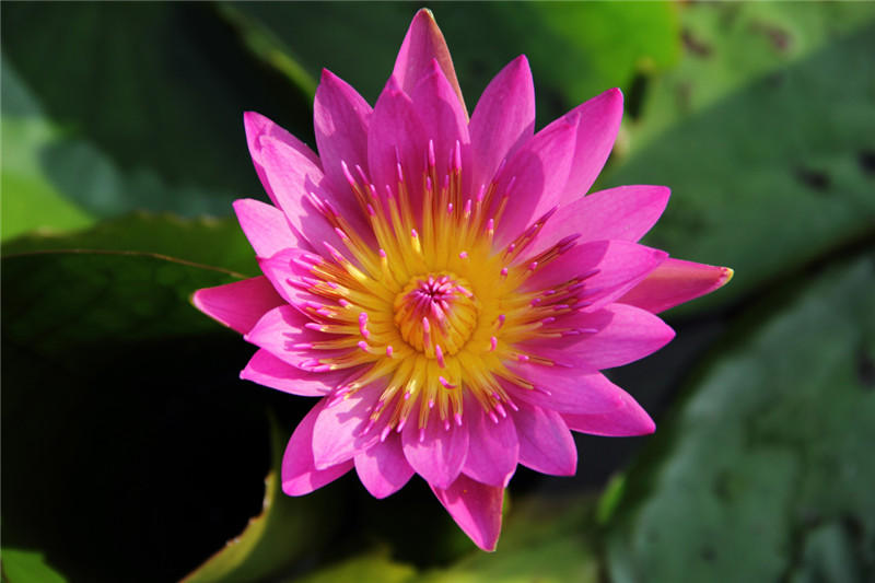 I have a robust and thickened rhizome. My dimorphous leaves, floating on the water, are in rotund or ovate shapes, with sinuses in their bases, in cordate or sagittate shapes. I grow in buffalo ponds and natural wetlands, favoring soil rich in organic matter.